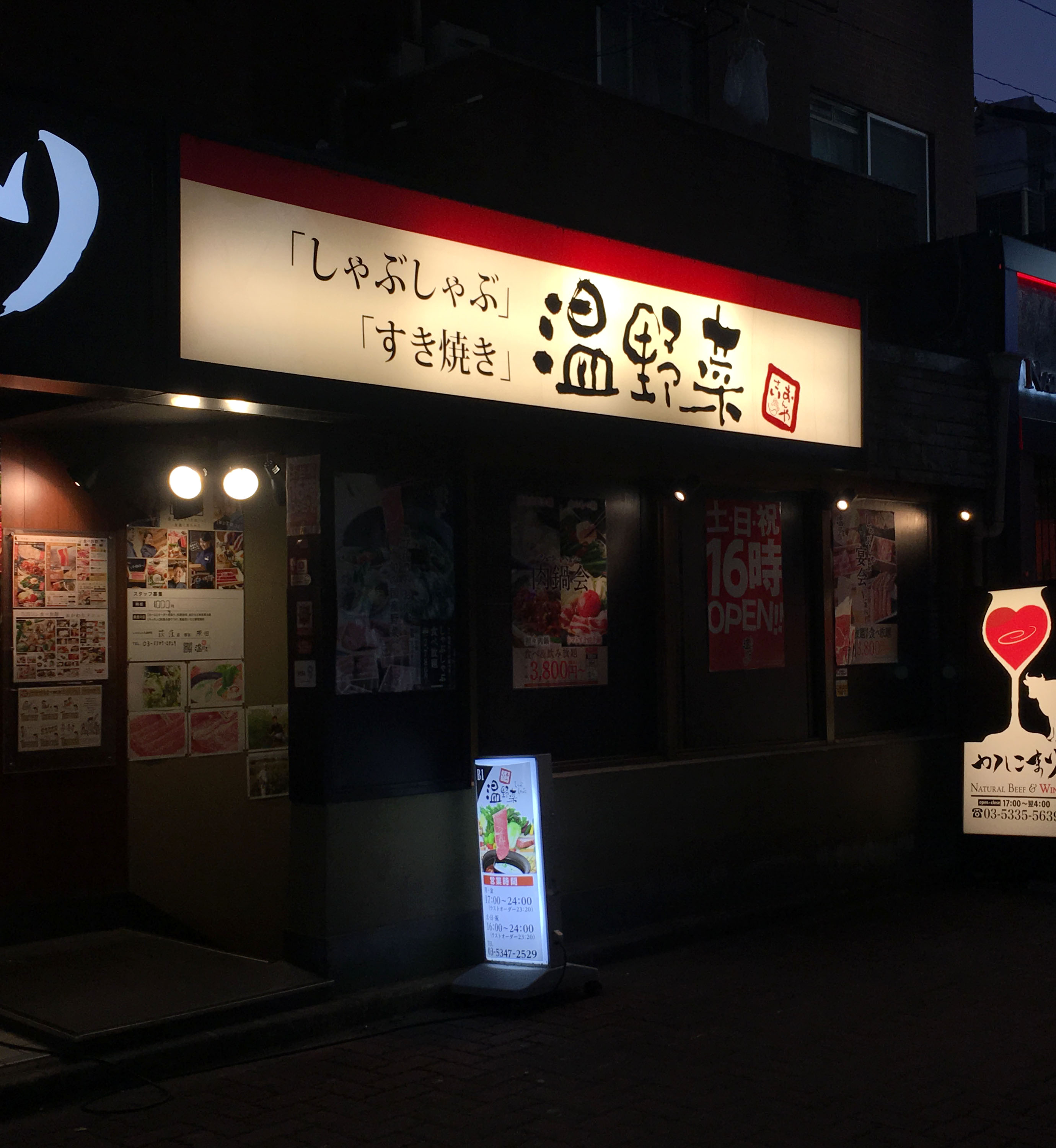 Shabu-shabu On'yasai (Japanese bar chain) Ogikubo branch (Tokyo, Japan)